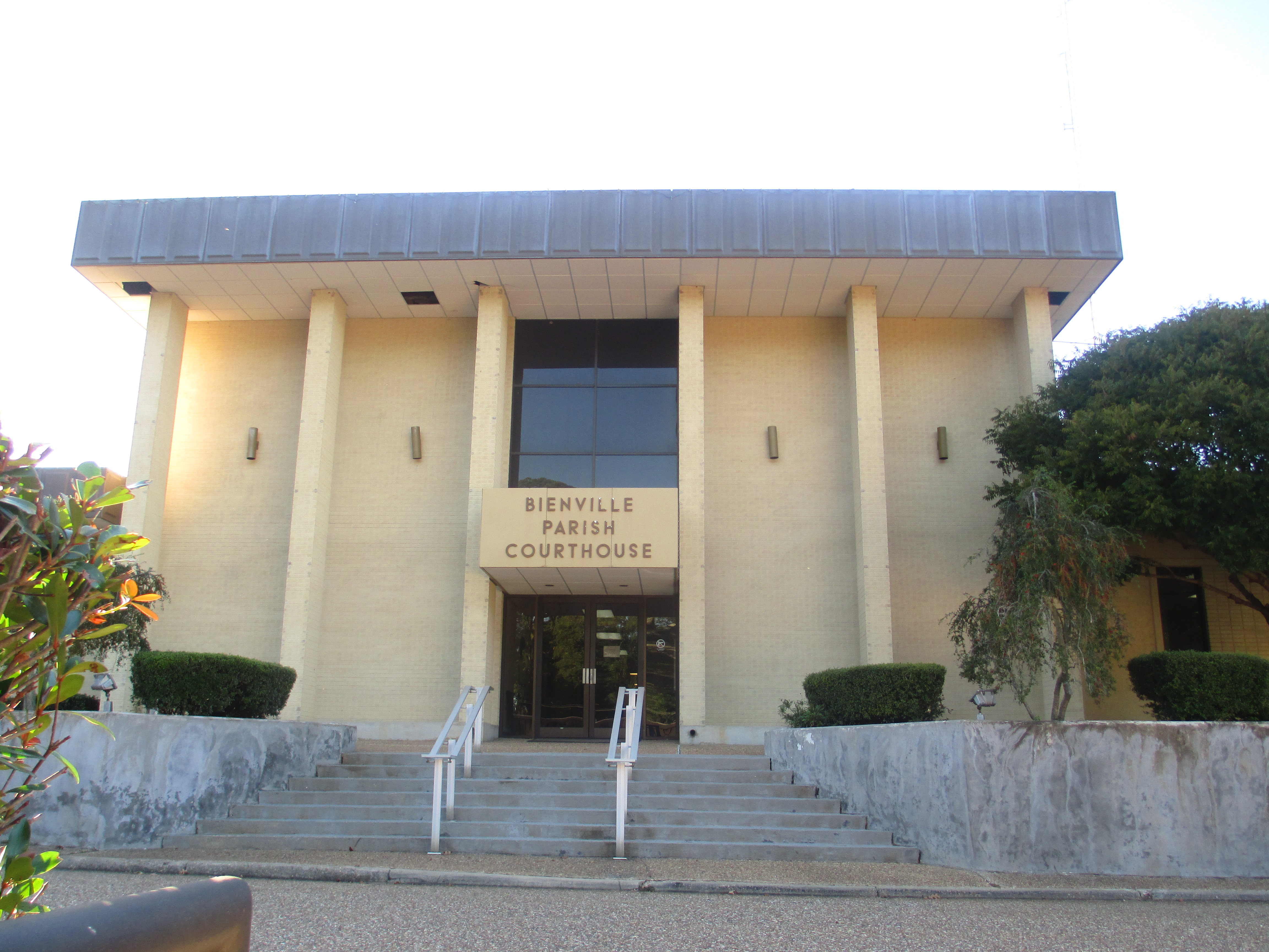 I took photo with Canon camera of Bienville Parish Courthouse in Arcadia, LA.